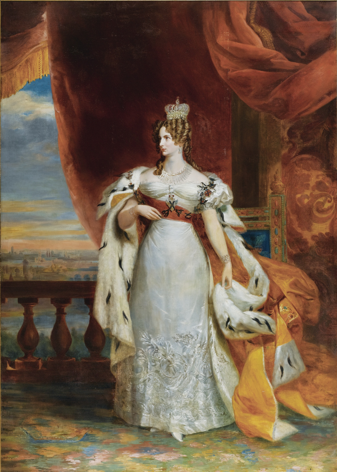 Empress Alexandra Feodorovna at the coronation of her husband, 1826